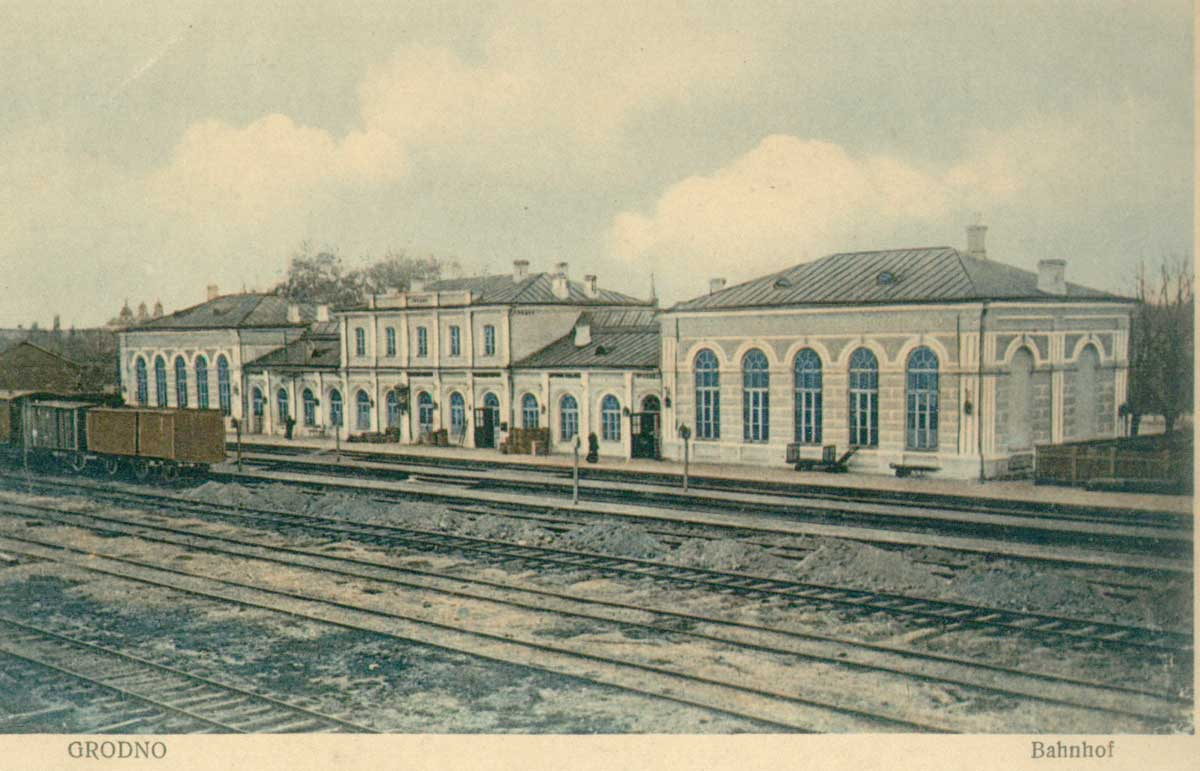 Railway station of Saint-Petersburg-Warszawa line in Grodno